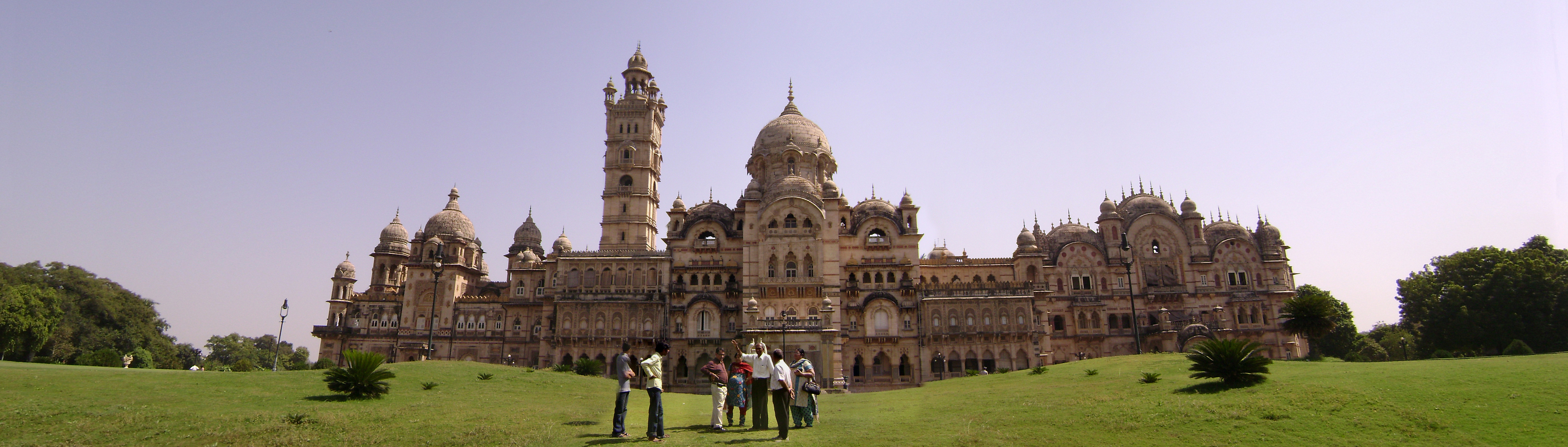 A panoramic view of the Laxmi Vilas Palace. This palace houses the present king of Vadodara, Maharaja Sayajirao Gayekeward